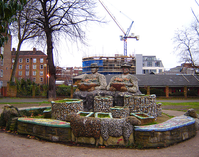 Flower sellers sculpture on London Fields, Hackney, London. 10 January 2006. Photographer: Fin Fahey